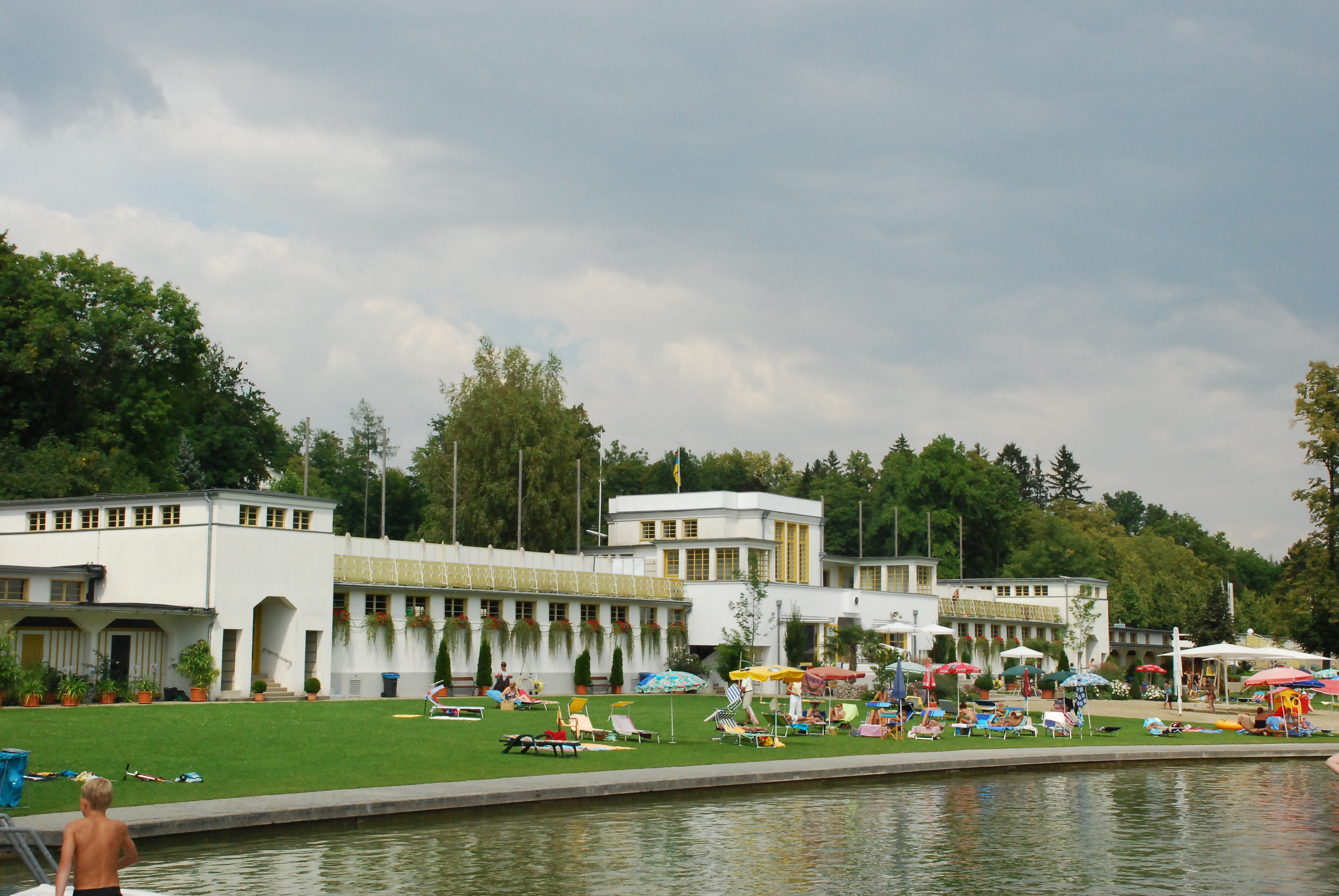 bath at Gmunden